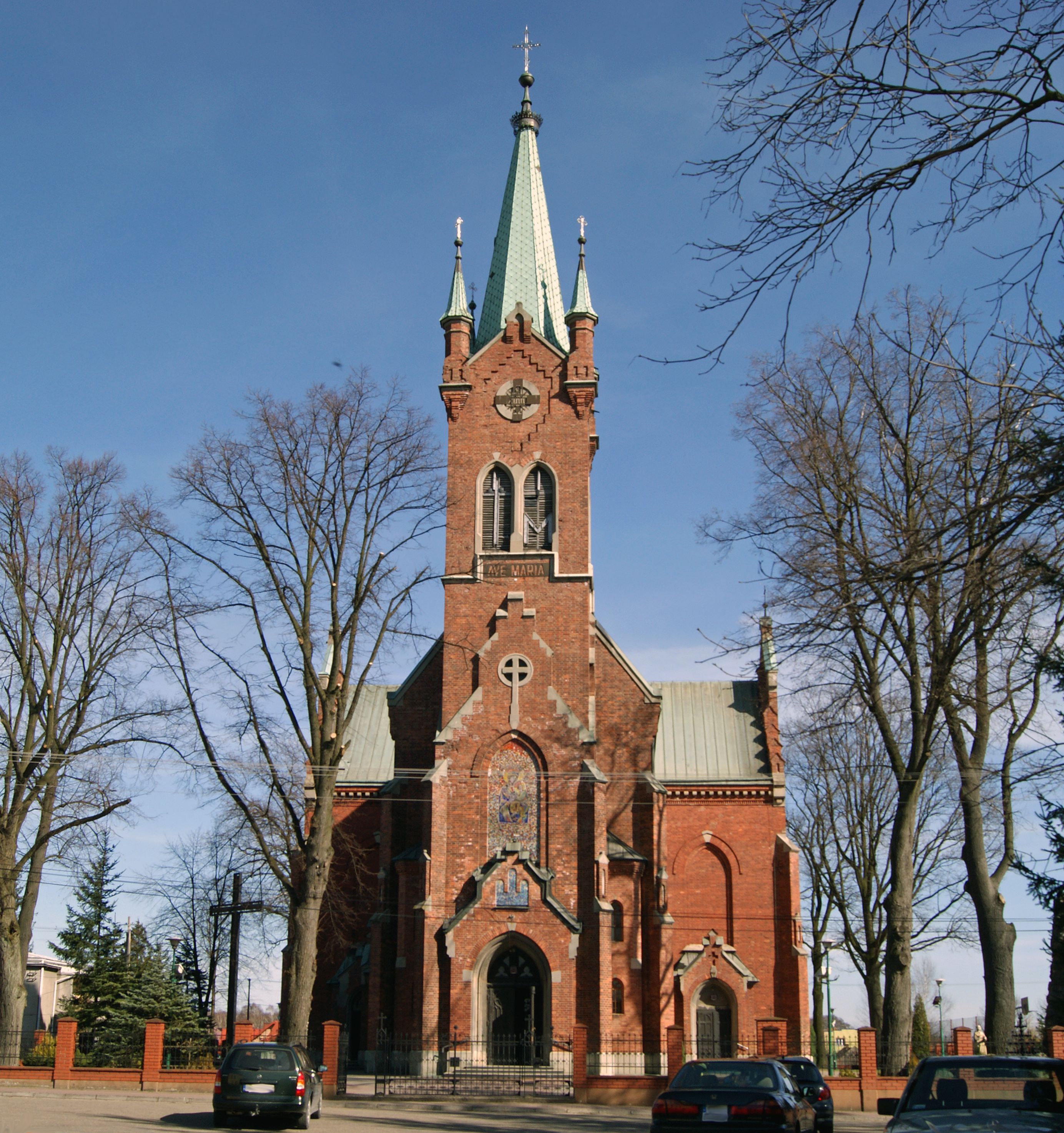 Church of the Our Lady of Perpetual Help, 435 Wola Rzędzińska village, Tarnów County, Lesser Poland Voivodeship, Poland